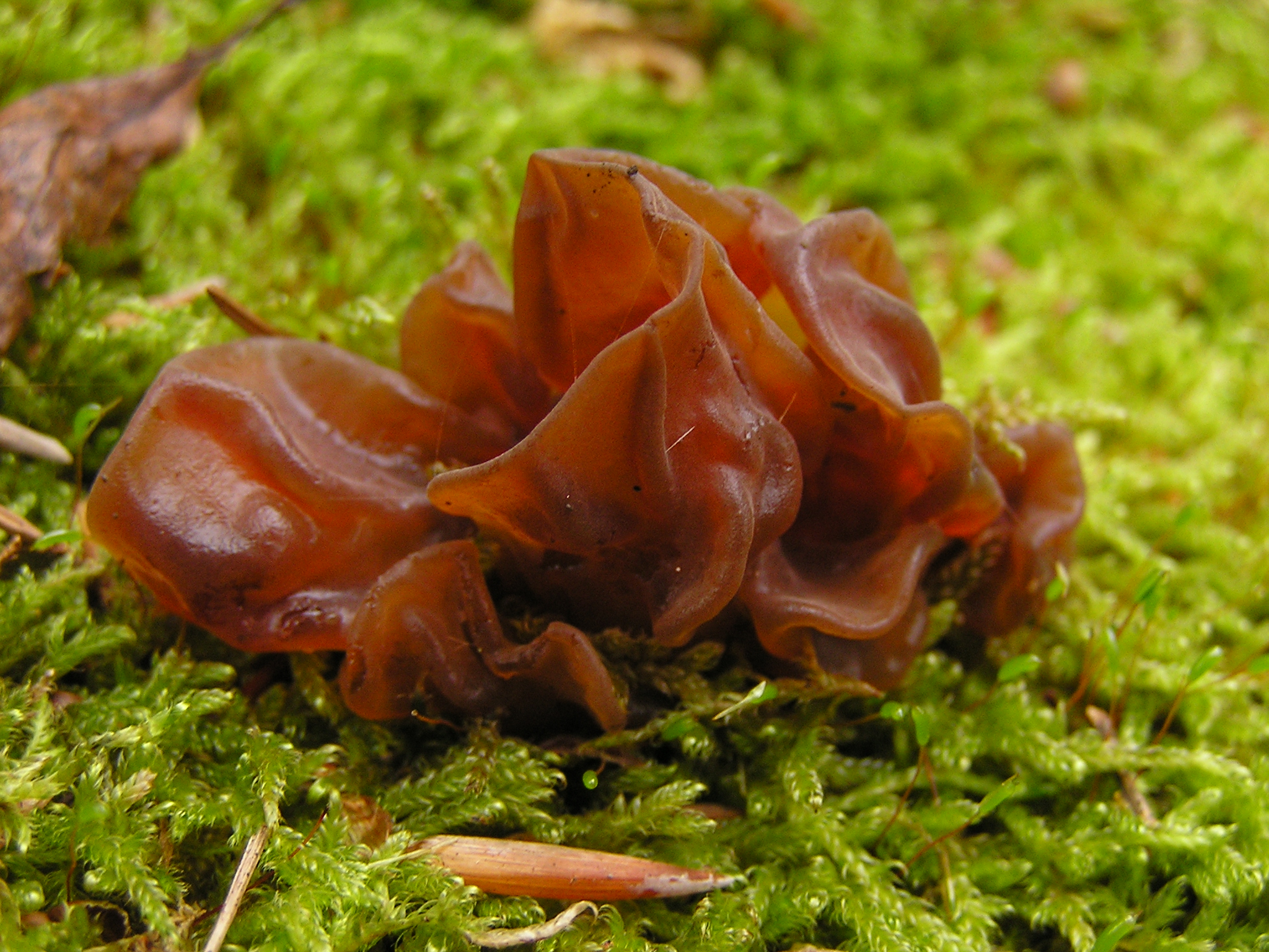 Auricularia auricula-judae